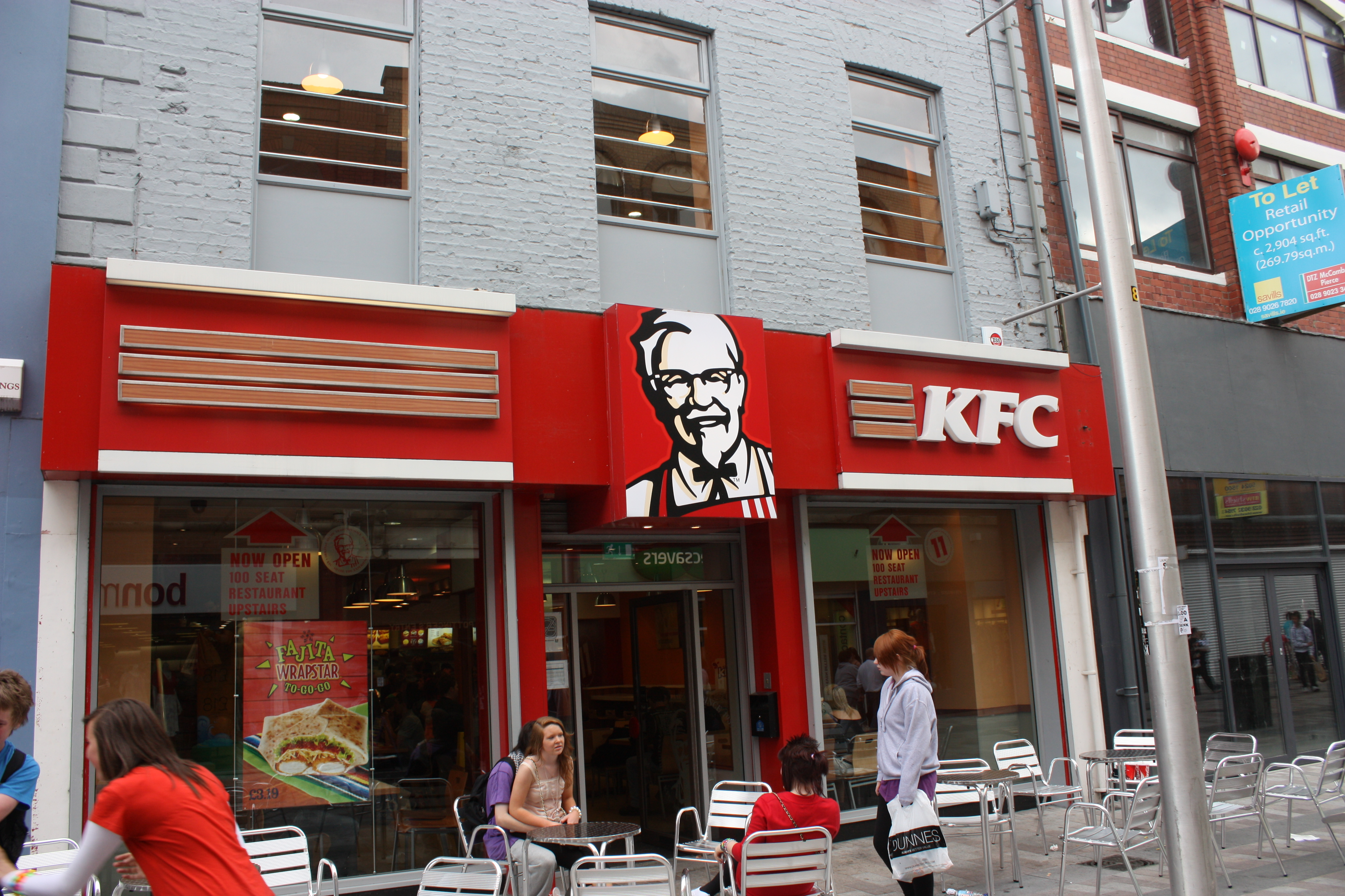 Kentucky Fried Chicken, Ann Street, Belfast, Northern Ireland, June 2010